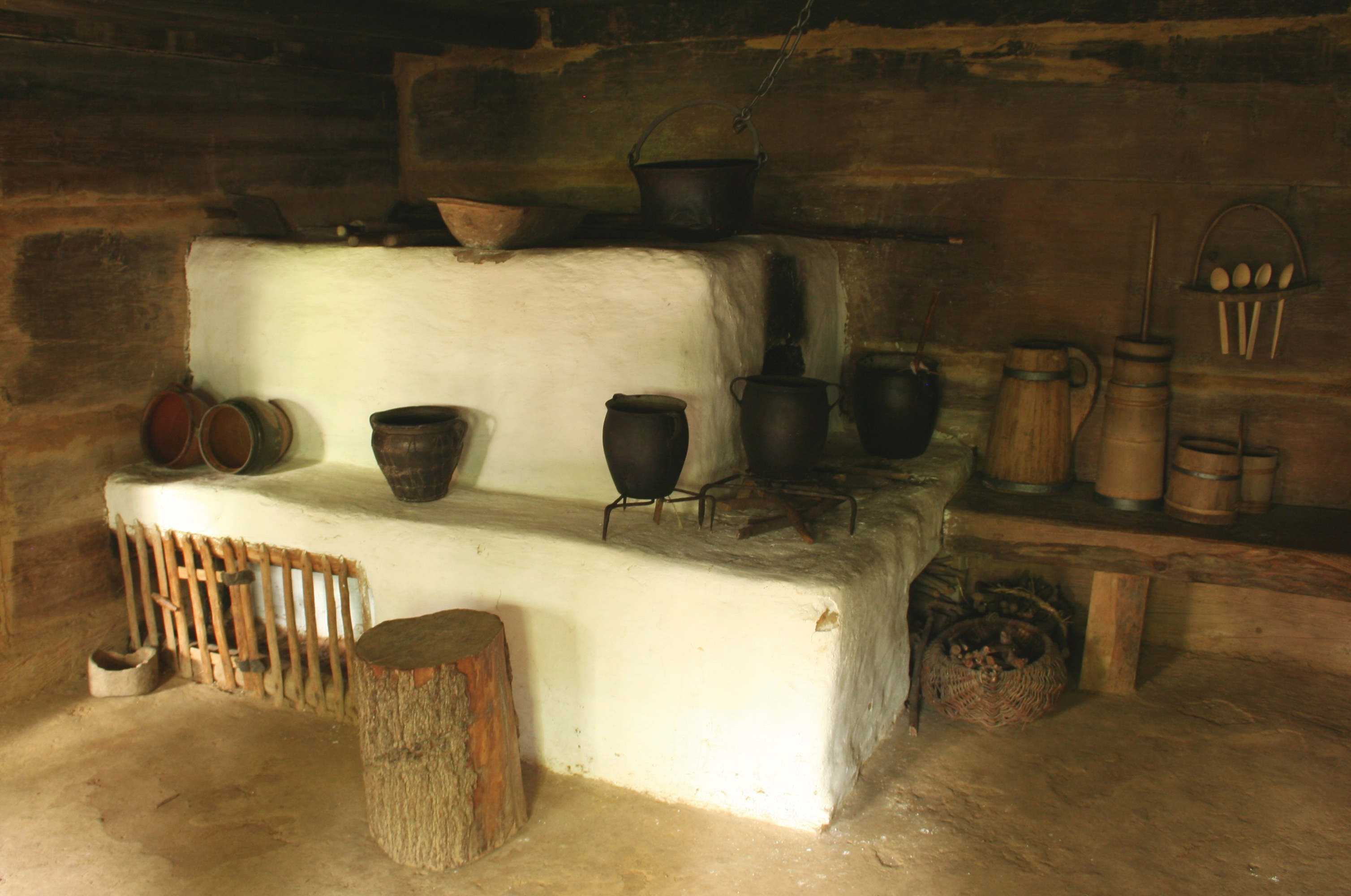 The oven in the cottage, Skansen in Sanok, Poland